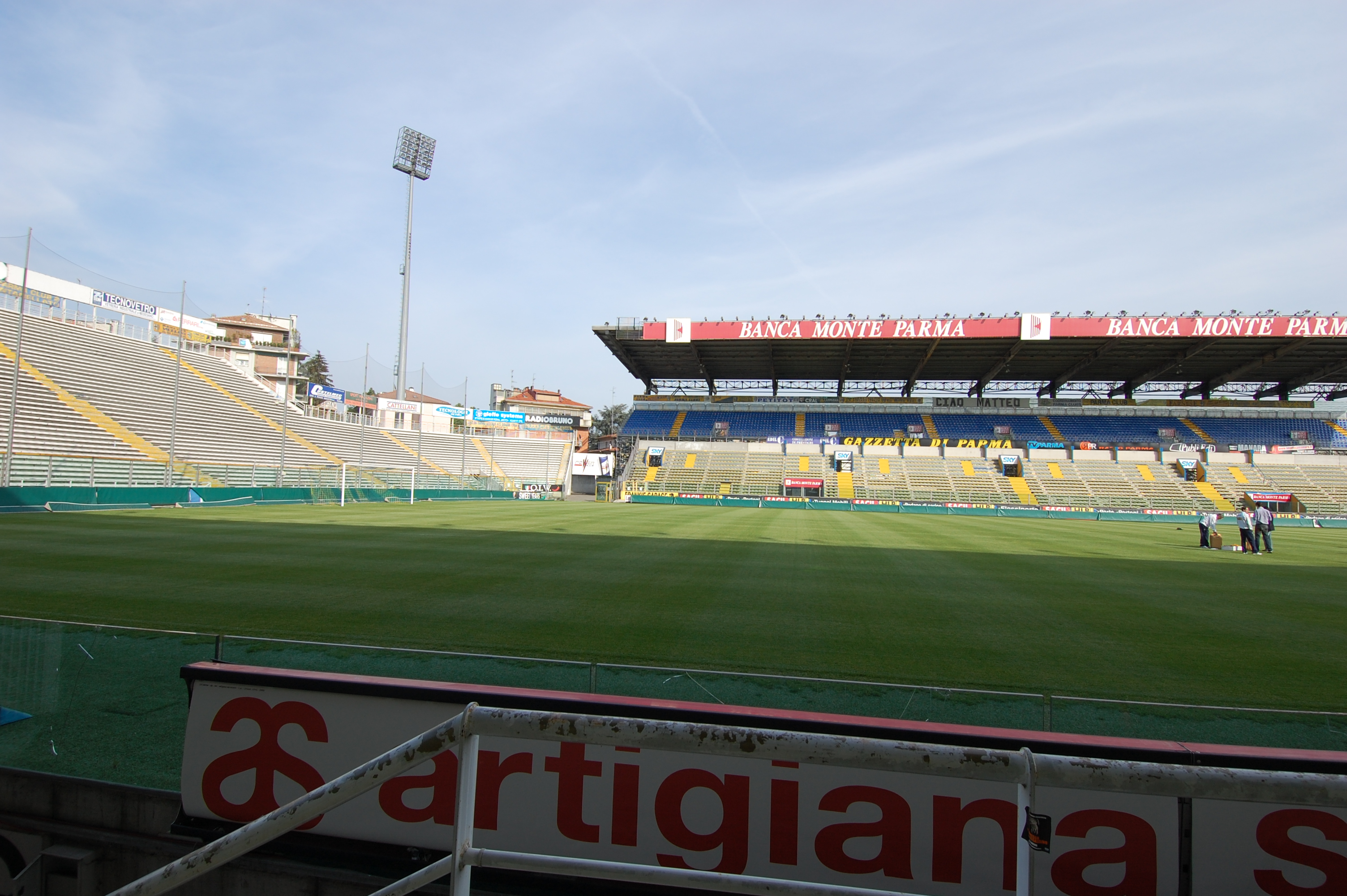 Stadio Ennio Tardini